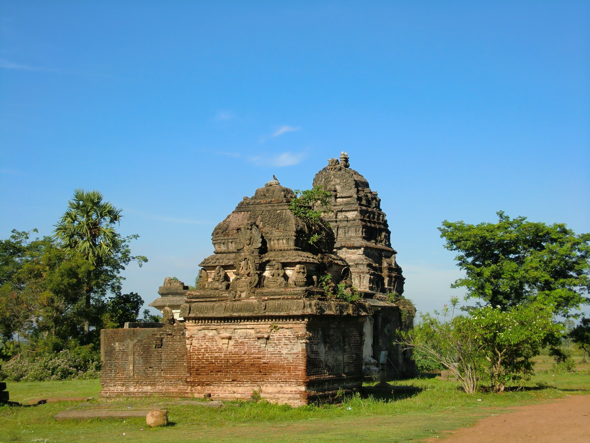 Shiva Temple which was Build by the Great Emperor Raja Raja Chola 1(முதலாம் ராஜா ராஜா சோழன் )